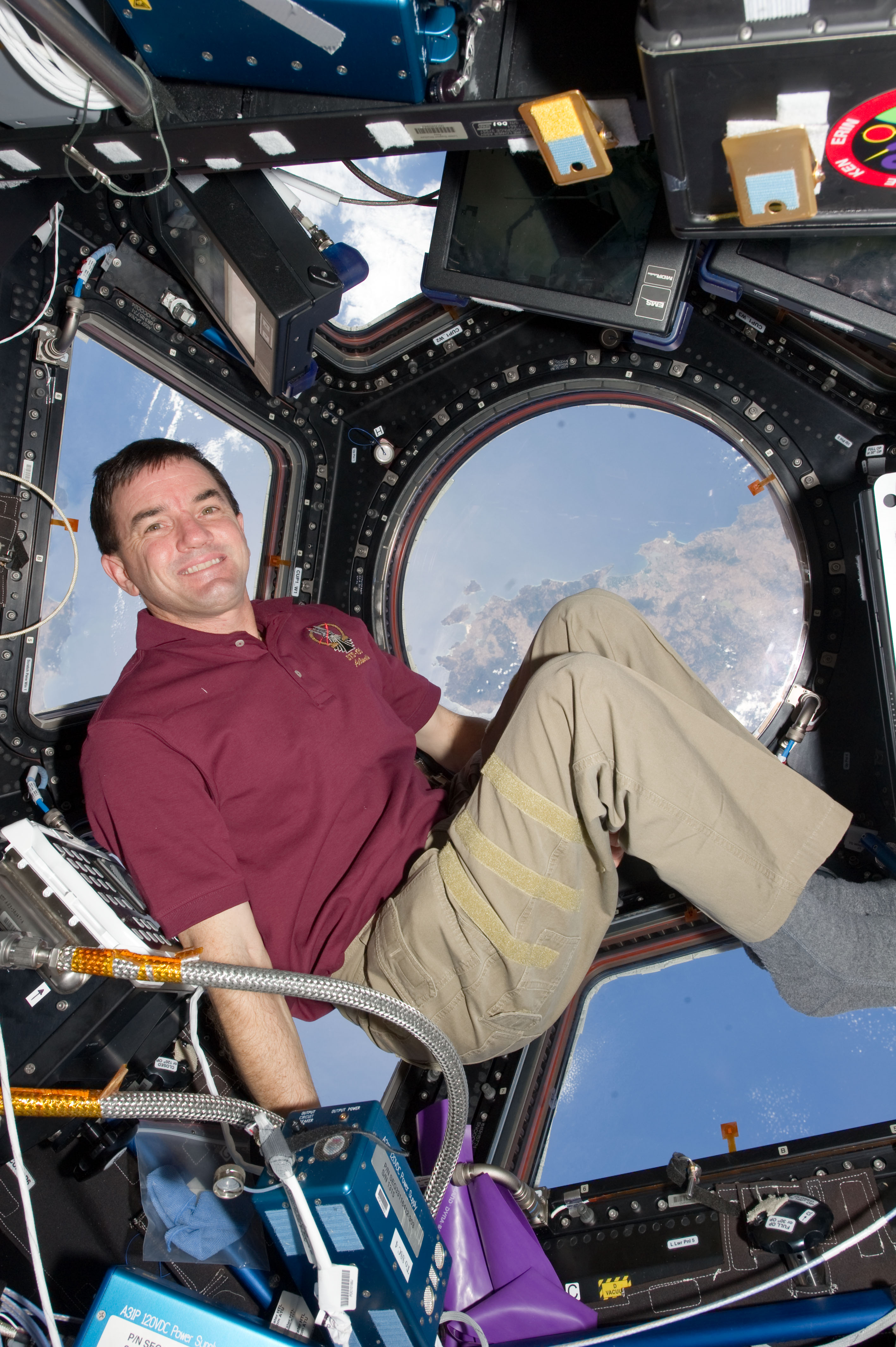 NASA astronaut Rex Walheim, STS-135 mission specialist, takes an opportunity to get the best view of Earth from aboard the International Space Station as he moves inside the Cupola. Walheim and three crewmates were in the last hours of their stay of over one week onboard the orbiting complex.